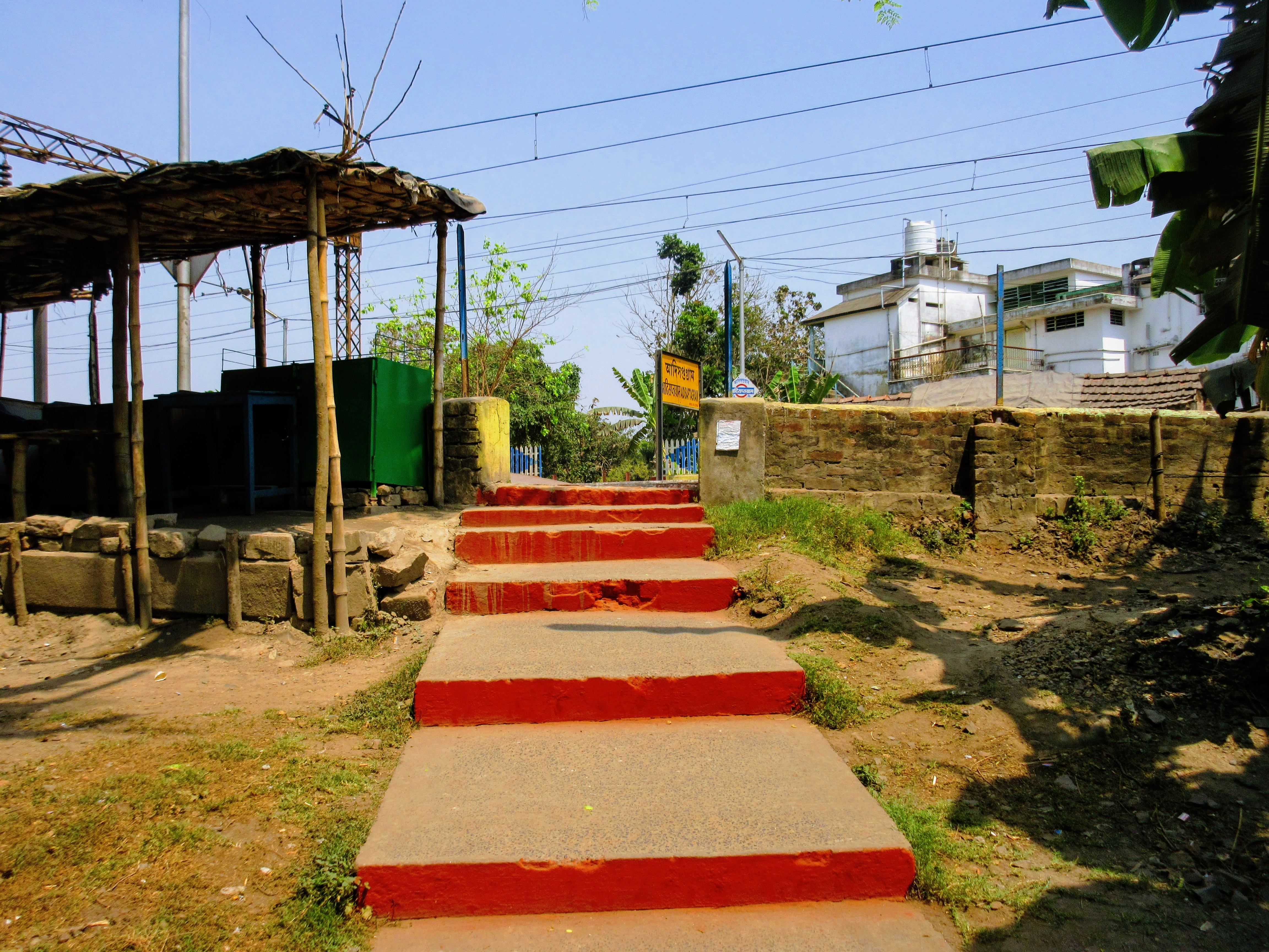 This is Adi Saptagram (আদি সপ্তগ্রাম) Rail Station. Address: S.T.Raod, Adisaptagram, Bansberia, Trishbigha, West Bengal 712502.